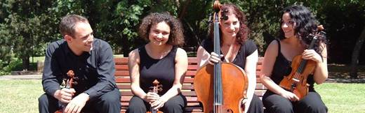 carmel quartet, an Israeli string quartet